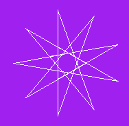 A star plotted with the LOGO language.